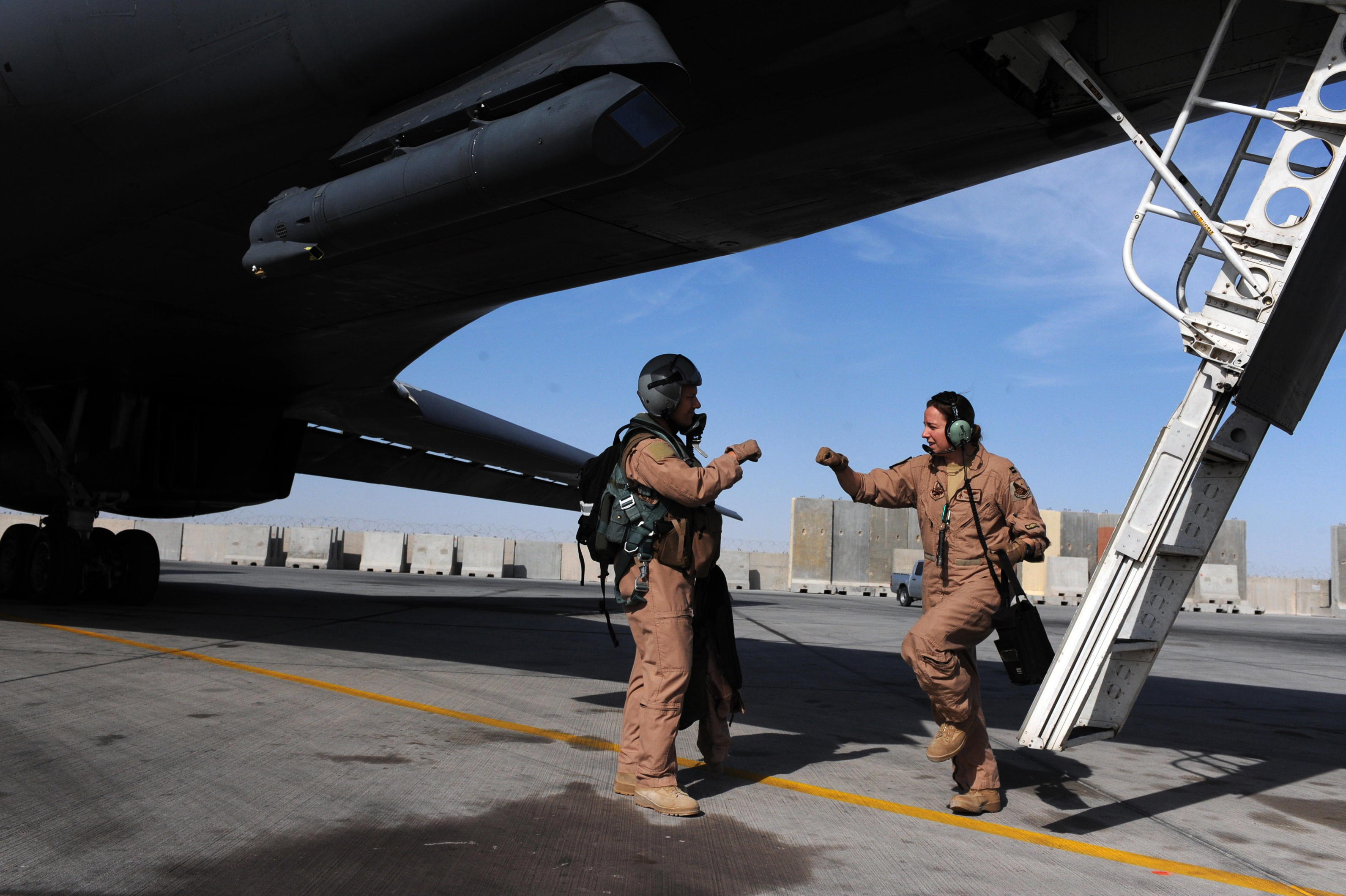 Lt. Col. John "Oasis" Martin, B-1B Lancer pilot, and Capt. Tara Hart, a B-1B weapon system officer, both assigned to the 37th Expeditionary Bomb Squadron, exchange a good-luck gesture before boarding a B-1B bomber Jan. 23, in Southwest Asia. Lt. Col. Martin and his flight crew are stationed at Ellsworth Air Force Base and this was the last mission of their six-month deployment. (U.S. Air Force photo/Staff Sgt. Manuel J. Martinez/Released)